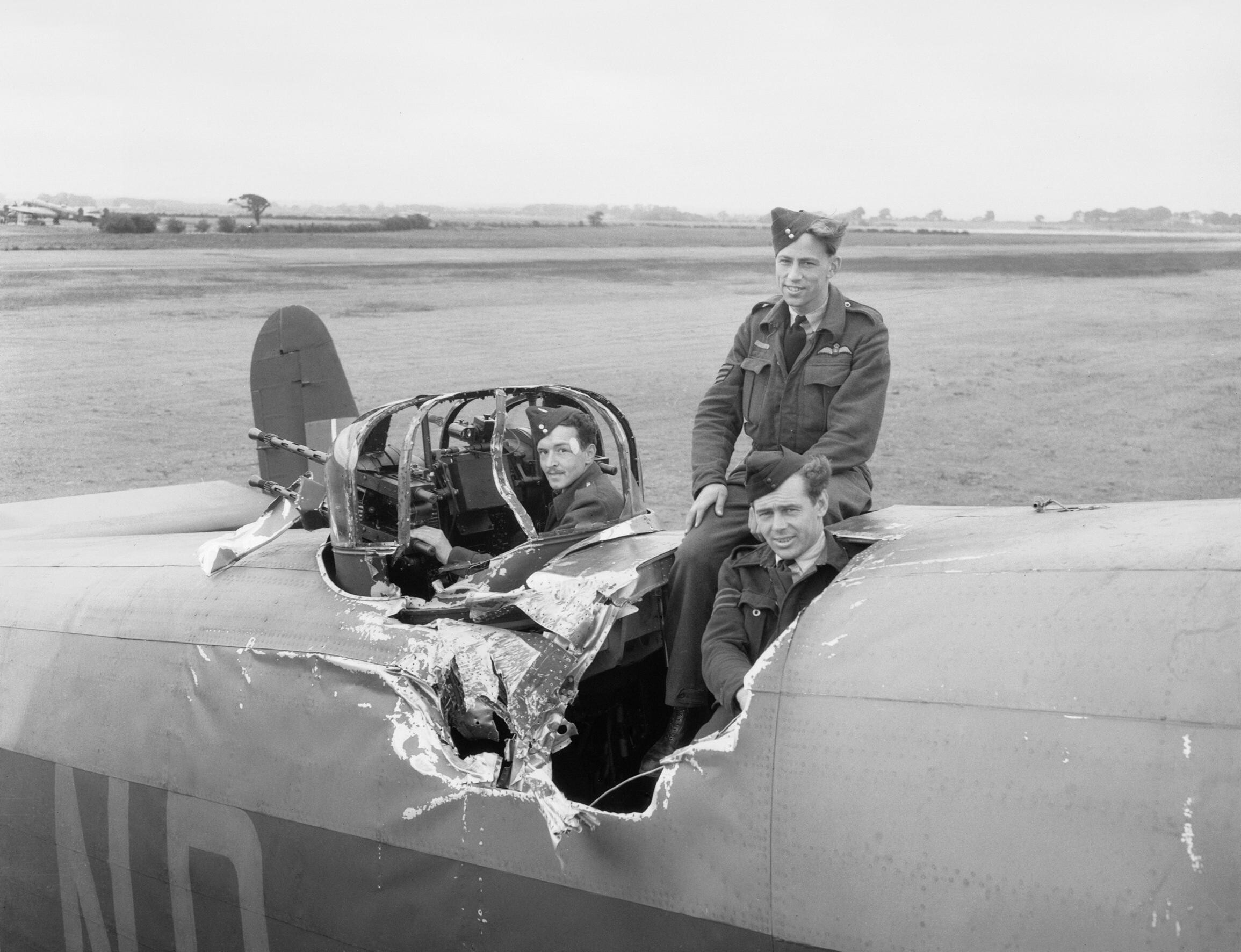 Royal Air Force Bomber Command, 1942-1945. Sergeant D Cameron, the pilot of Handley Page Halifax B Mark II, HR837 'NP-F', of No. 158 Squadron RAF, poses with two of his crew amidst the damage caused when it was hit by a falling bomb from another aircraft while raiding Cologne on the night of 28/29 June 1943. In spite of the severe damage to the fuselage, none of the crew were injured and Cameron managed to fly HR837 back to the Squadron's base at Lissett, Yorkshire. HR837 was repaired and flew a further 11 operations with the Squadron before being turned over to No. 1656 Heavy Conversion Unit.